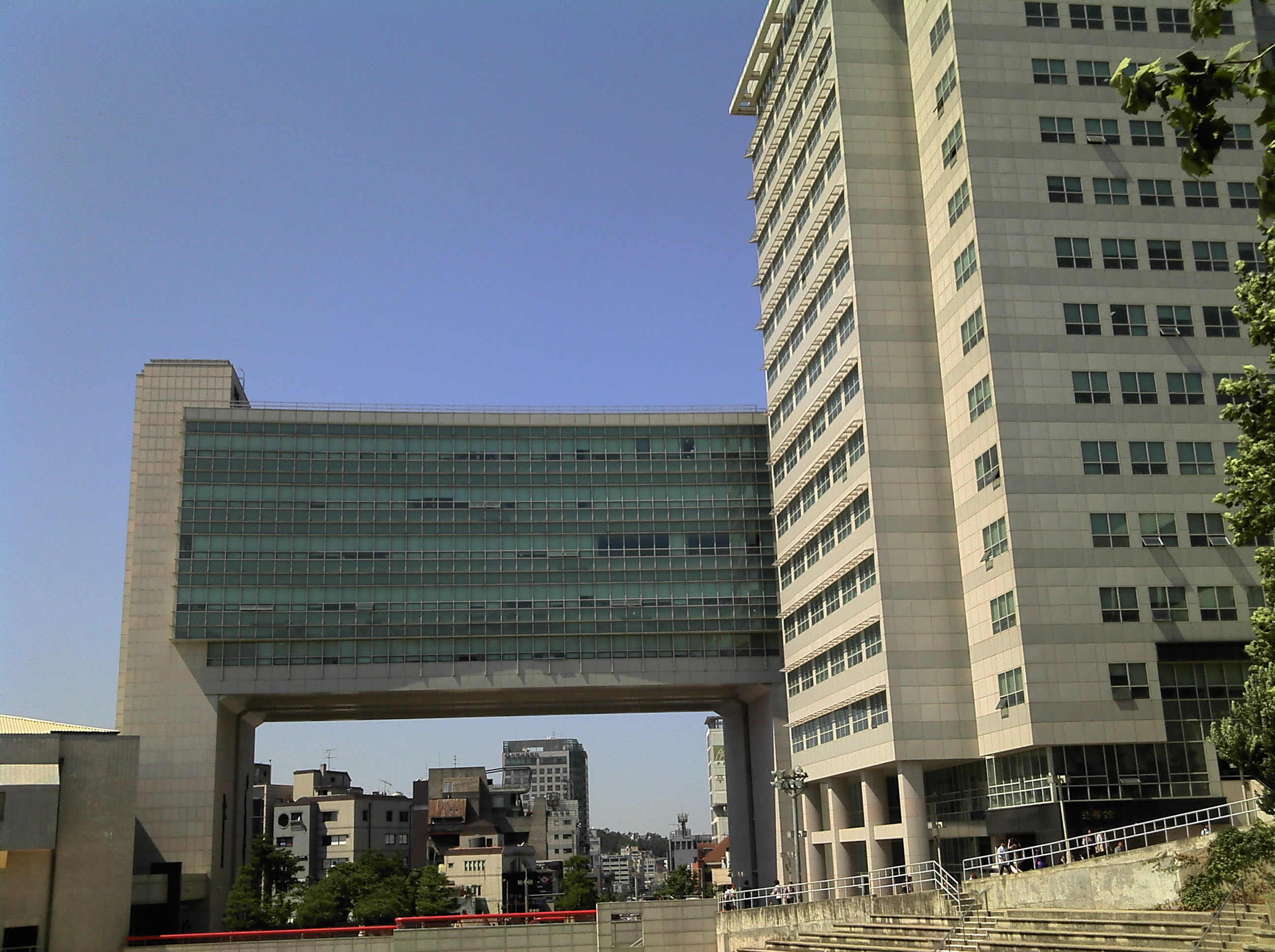 Hongmungwan gateway from east - Hongik Univ